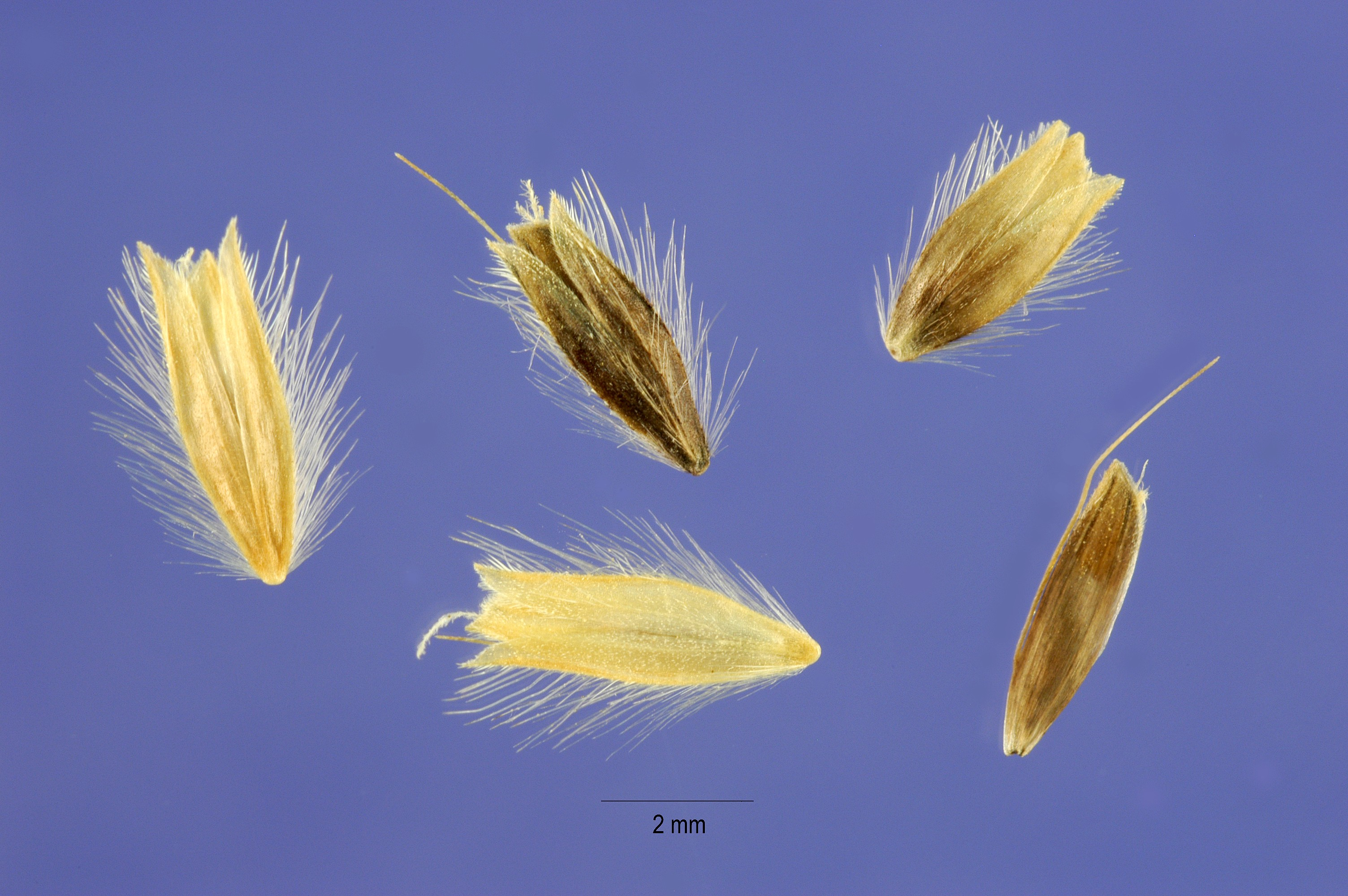 Creeping Meadow Foxtail. Family Poaceae. Seeds. Collected: Afghanistan, Kandahar.